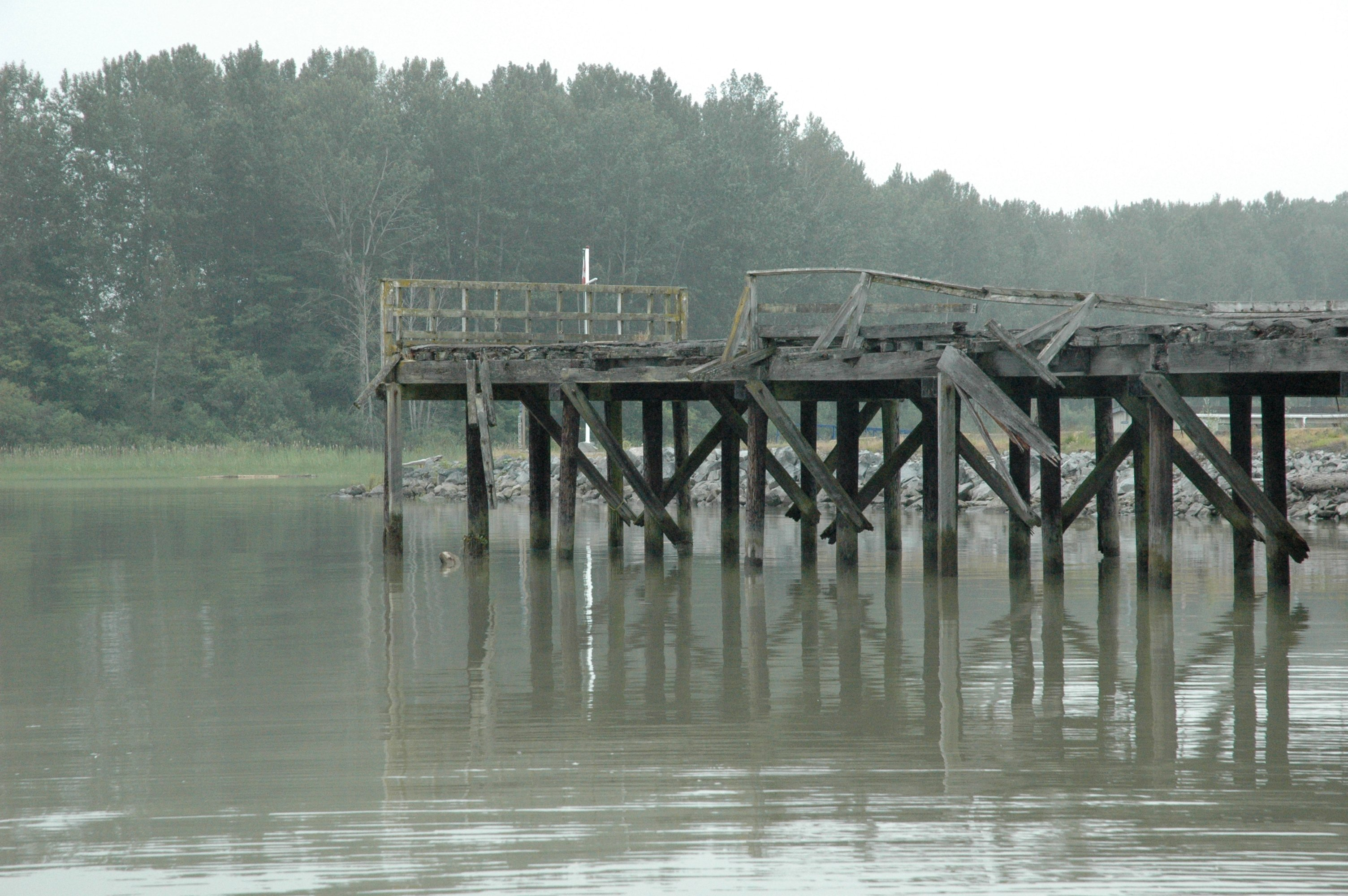 The old Ferry Dock in Ladner, British Columbia. Before the Massey tunnel was built, a ferry used to run between here and Richmond. Taken on June 25, 2005, with a Nikon D70 camera. For more info, see the flickr page.